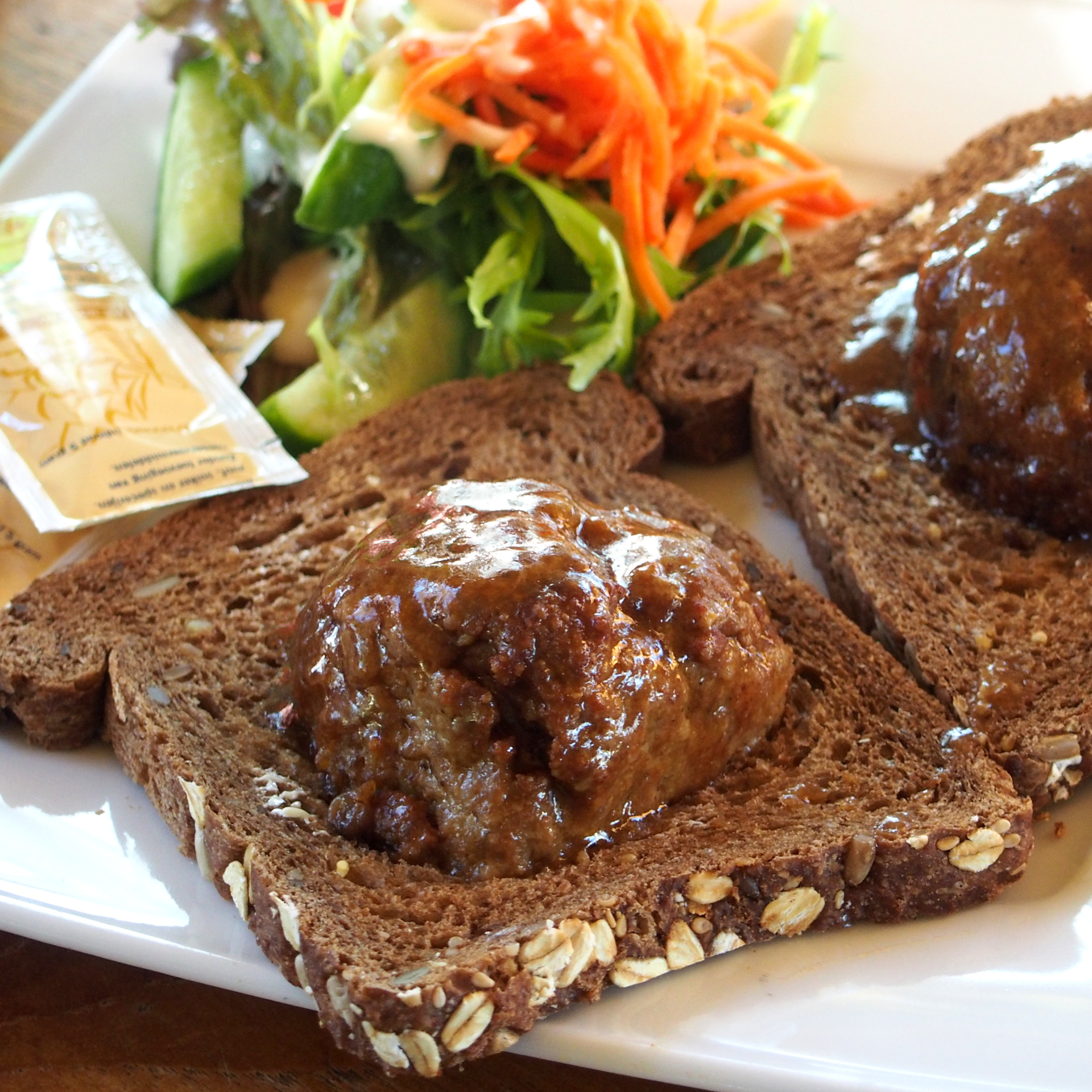 A broodje bal is Dutch for either a bun or a slice of bread with a meatball and gravy. The image shows a halved meatball served on two slices of Dutch whole wheat bread. Mustard, here in small packages, is always provided with this dish. In the Netherlands it is often eaten for lunchtime or as a quick snack in a bar or a lunch room. It is often also available at a snack bar.